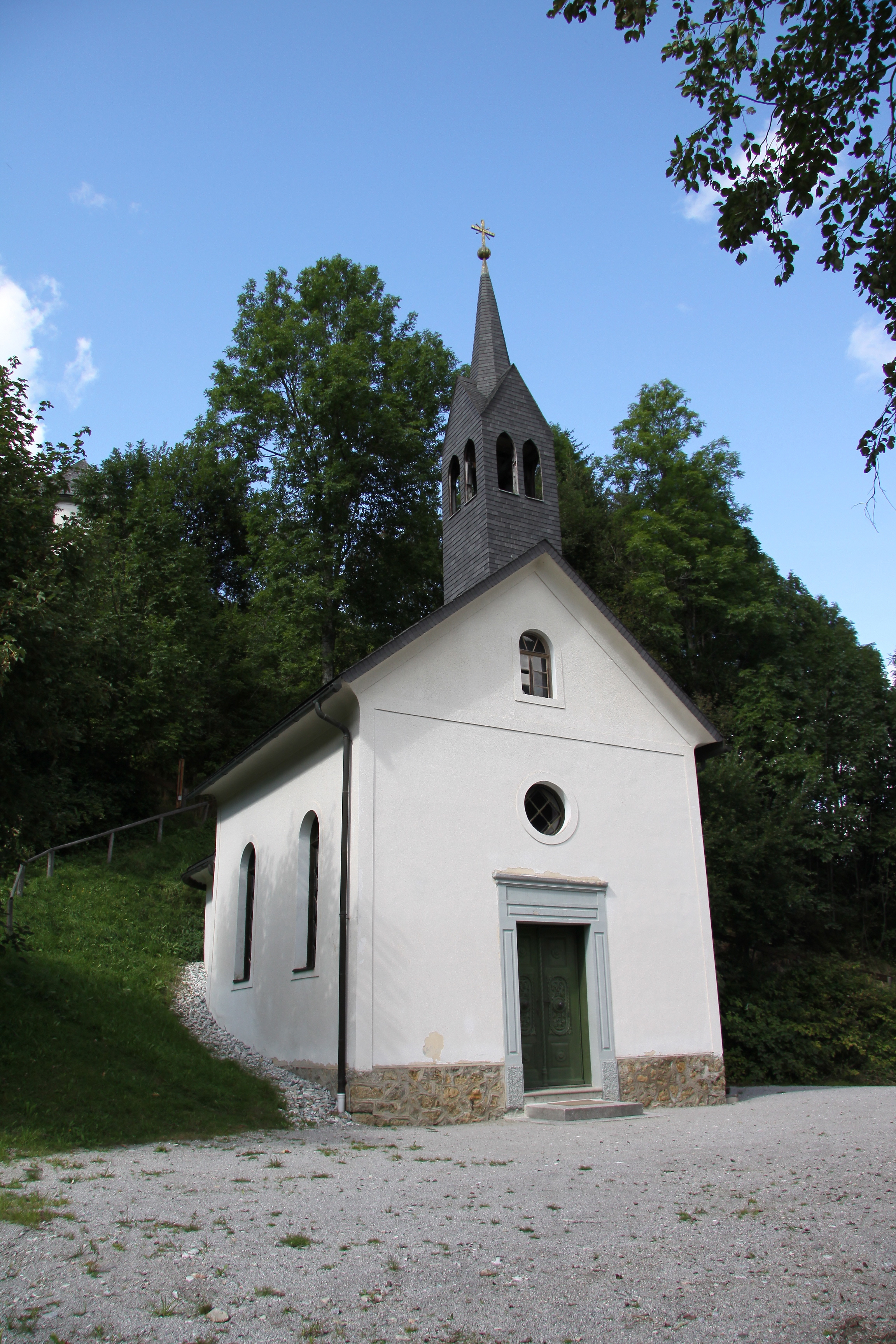 Lourdes Chapel in Forstau, Austria